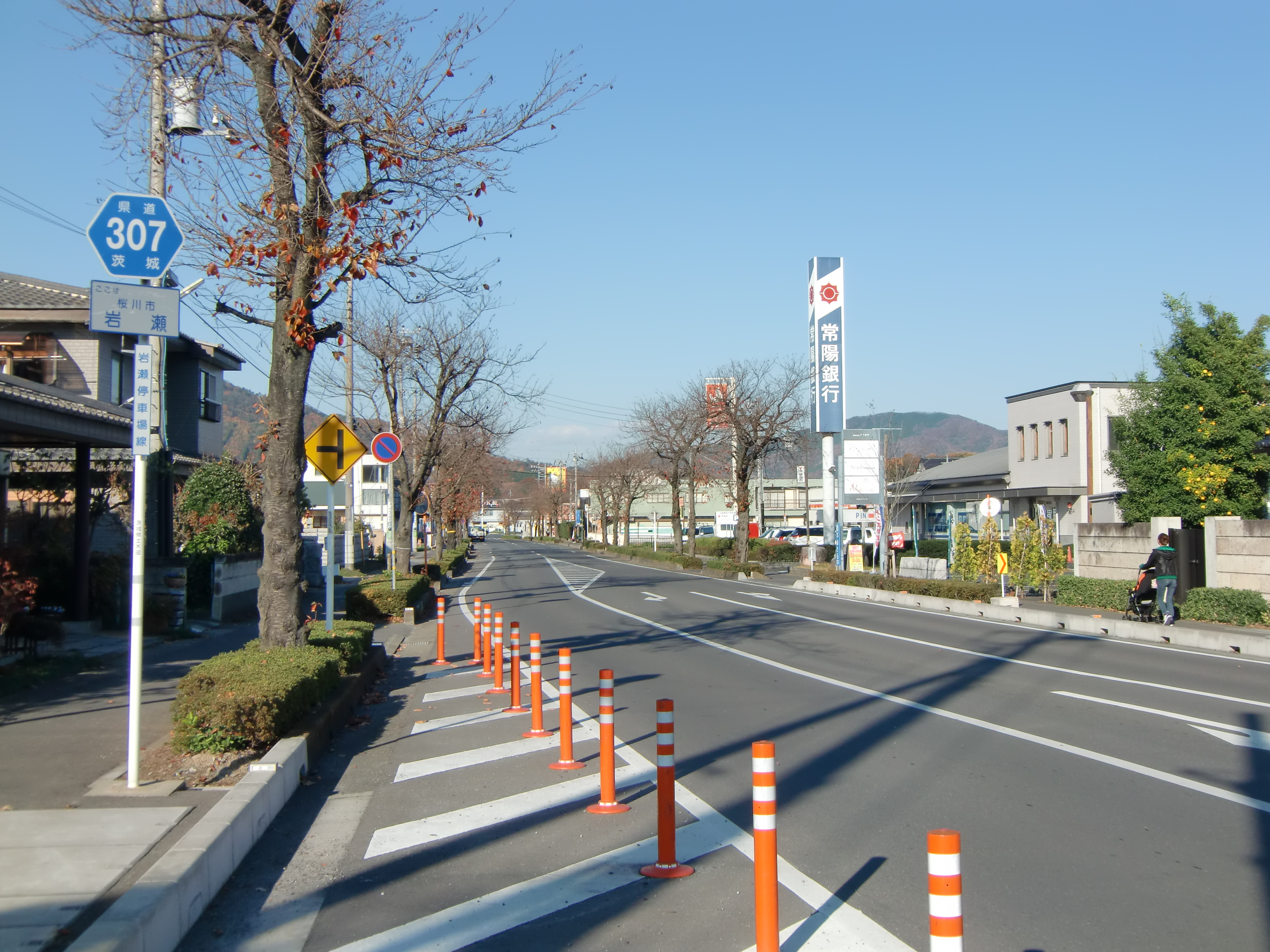 Ibaraki prefectural road 307(Iwase teishajō line) in Iwase, Sakuragawa city, Ibaraki prefecture, Japan.